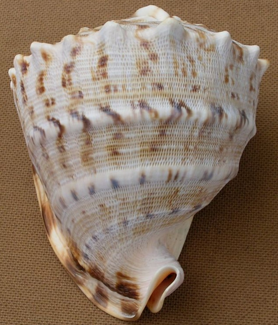 Photograph of the seashell Cassis cornuta (Linnaeus, 1758)[1] / Origin of image: Own collection. Madagascar. Tulear.